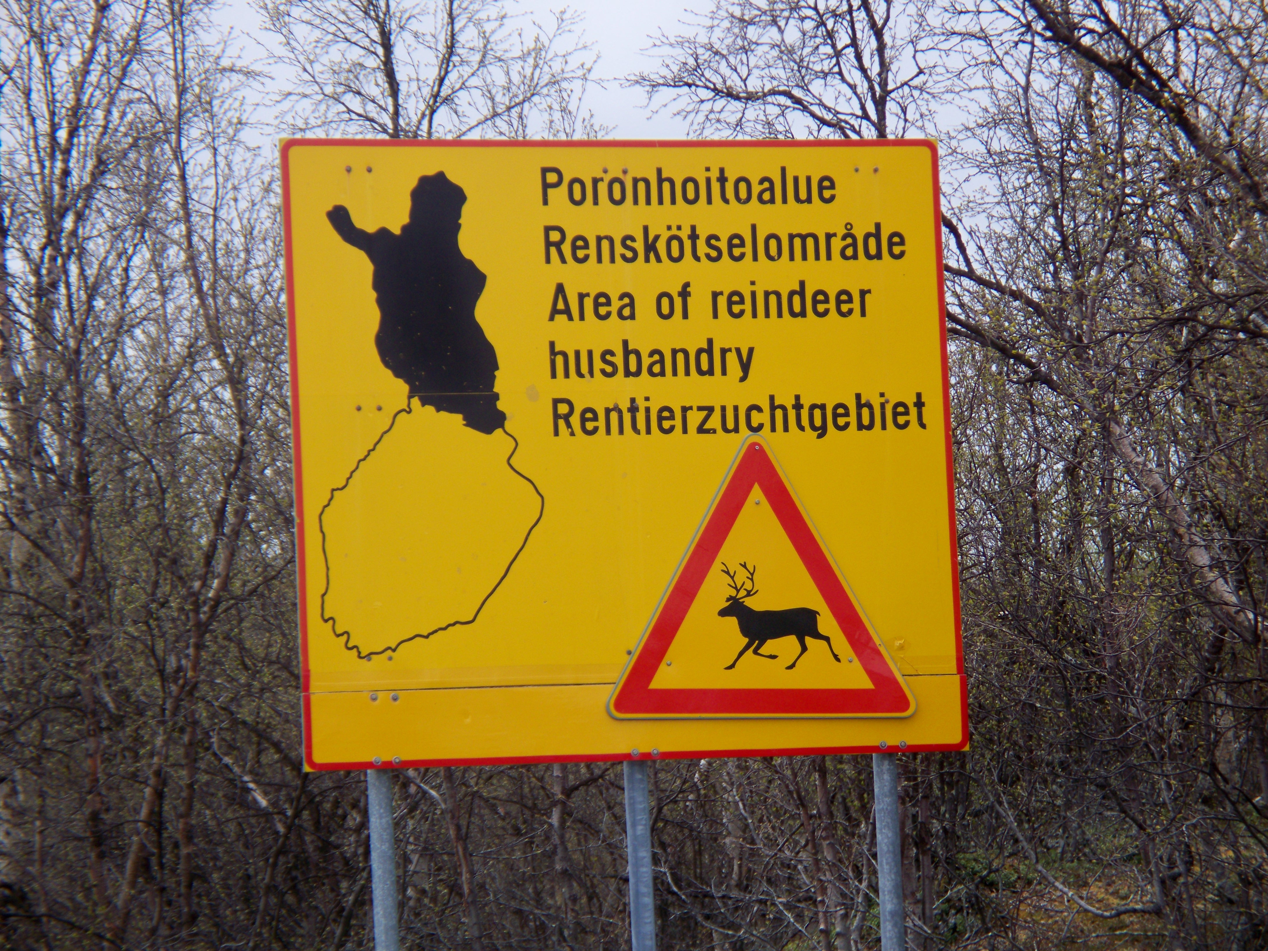 Reindeer warning sign